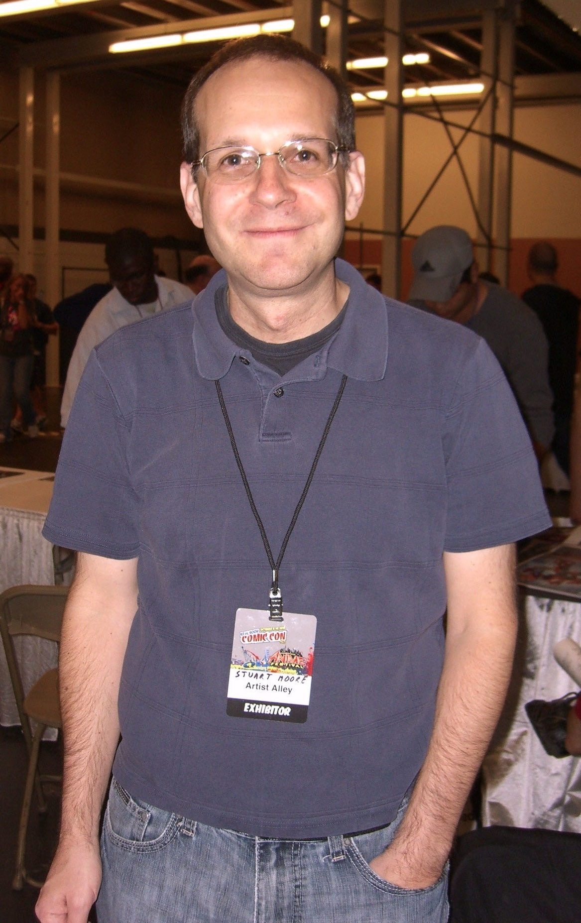 Comic book creator Stuart Moore, at the New York Comic Convention in Manhattan, October 10, 2010. Photo by Luigi Novi. This photo may be used, modified and published for any purpose, only if a easily visible credit to the photographer is placed near the photo in each instance in which it is used. (See licensing information below.) Publication of this photo without this proper attribution constitute copyright infringement. For more information on my photos, you can contact me here.